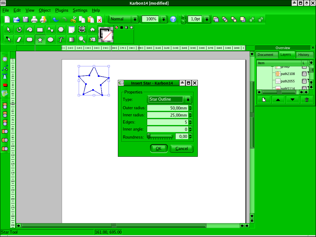 Insert Star - Properties